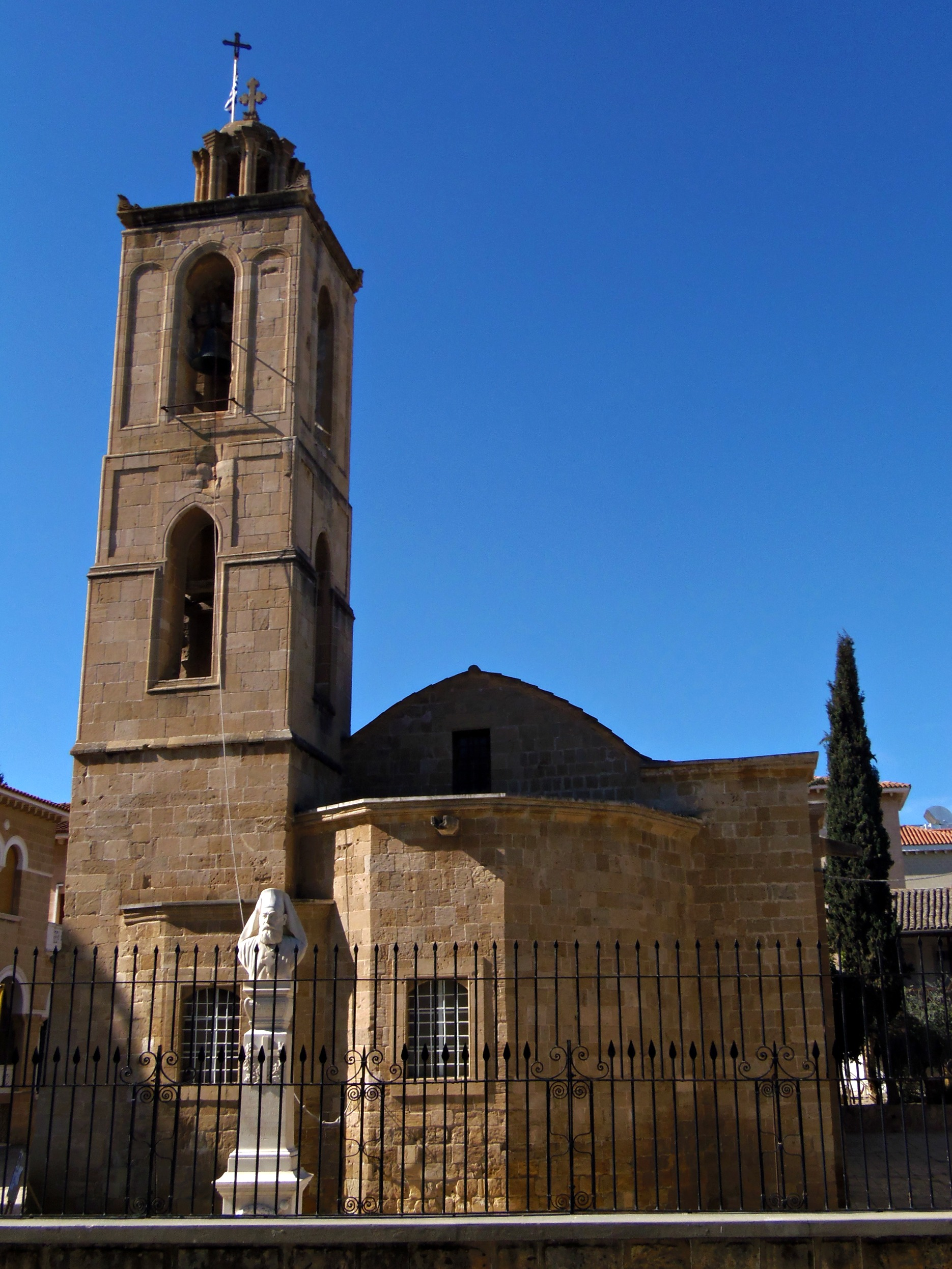 The Agios Ioannis church in Nicosia and the bust of Archbishop Kiprianos, Cyprus